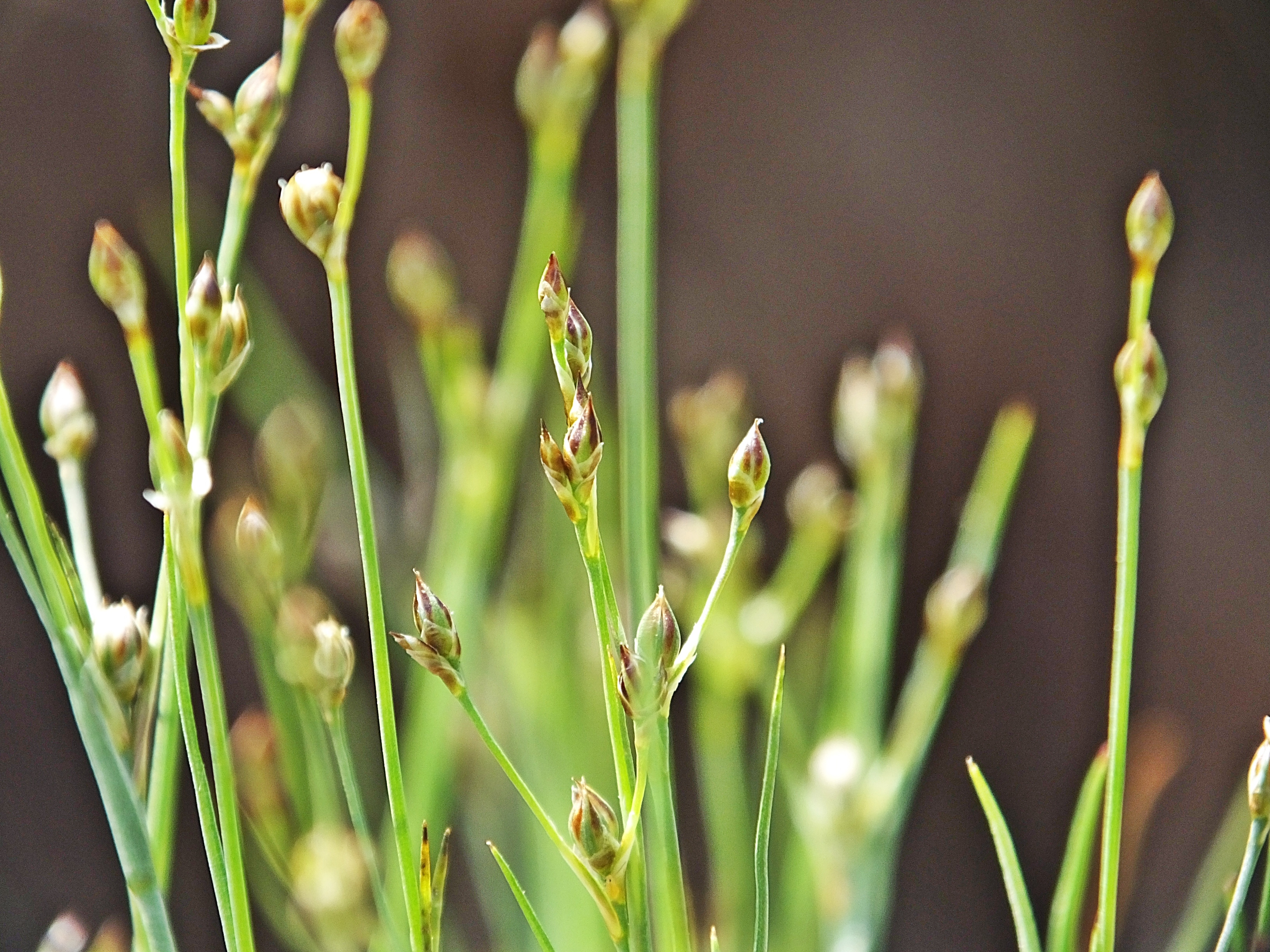 Juncus tenageias